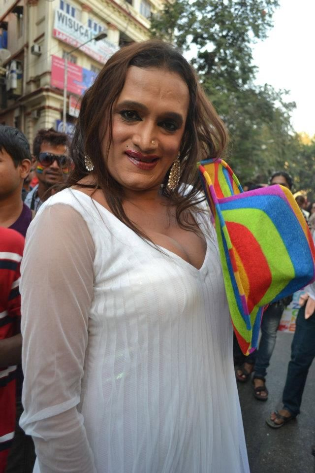 Laxmi Narayan Tripathi is a transgender rights activist in India.